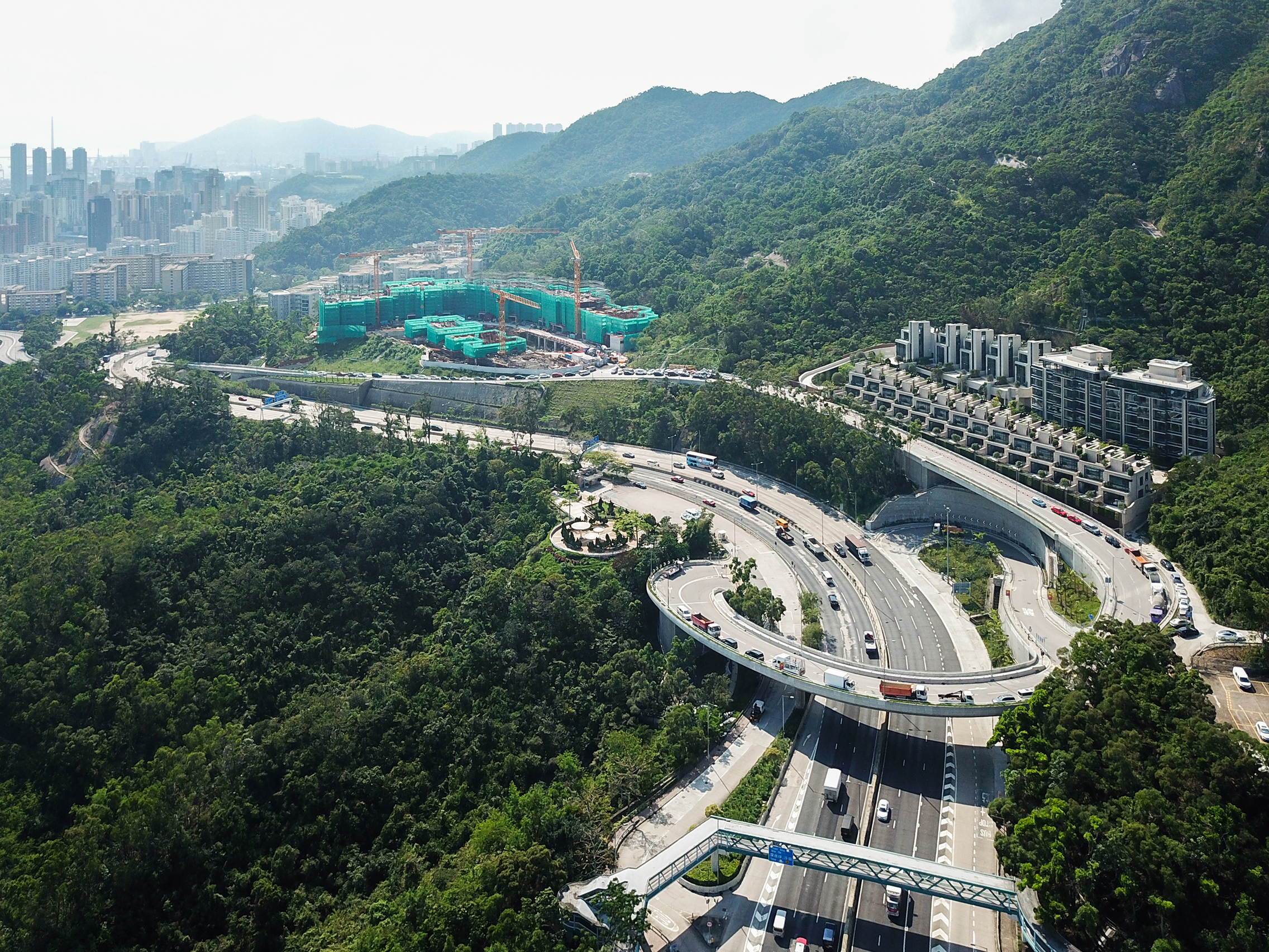 Tai Wo Ping new luxury residence